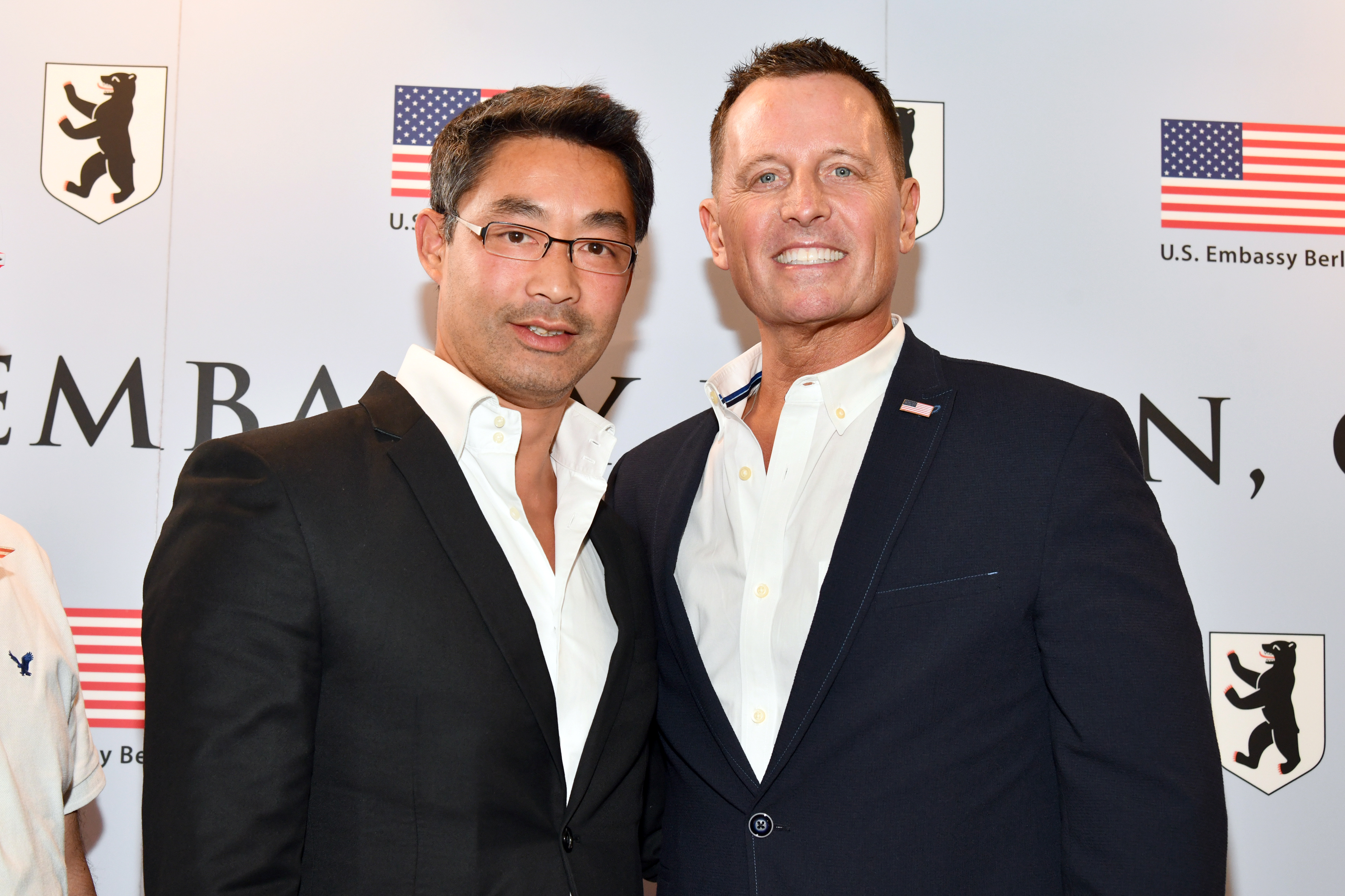 Philipp Rösler and Richard Grenell, 4th of July 2019 in Berlin